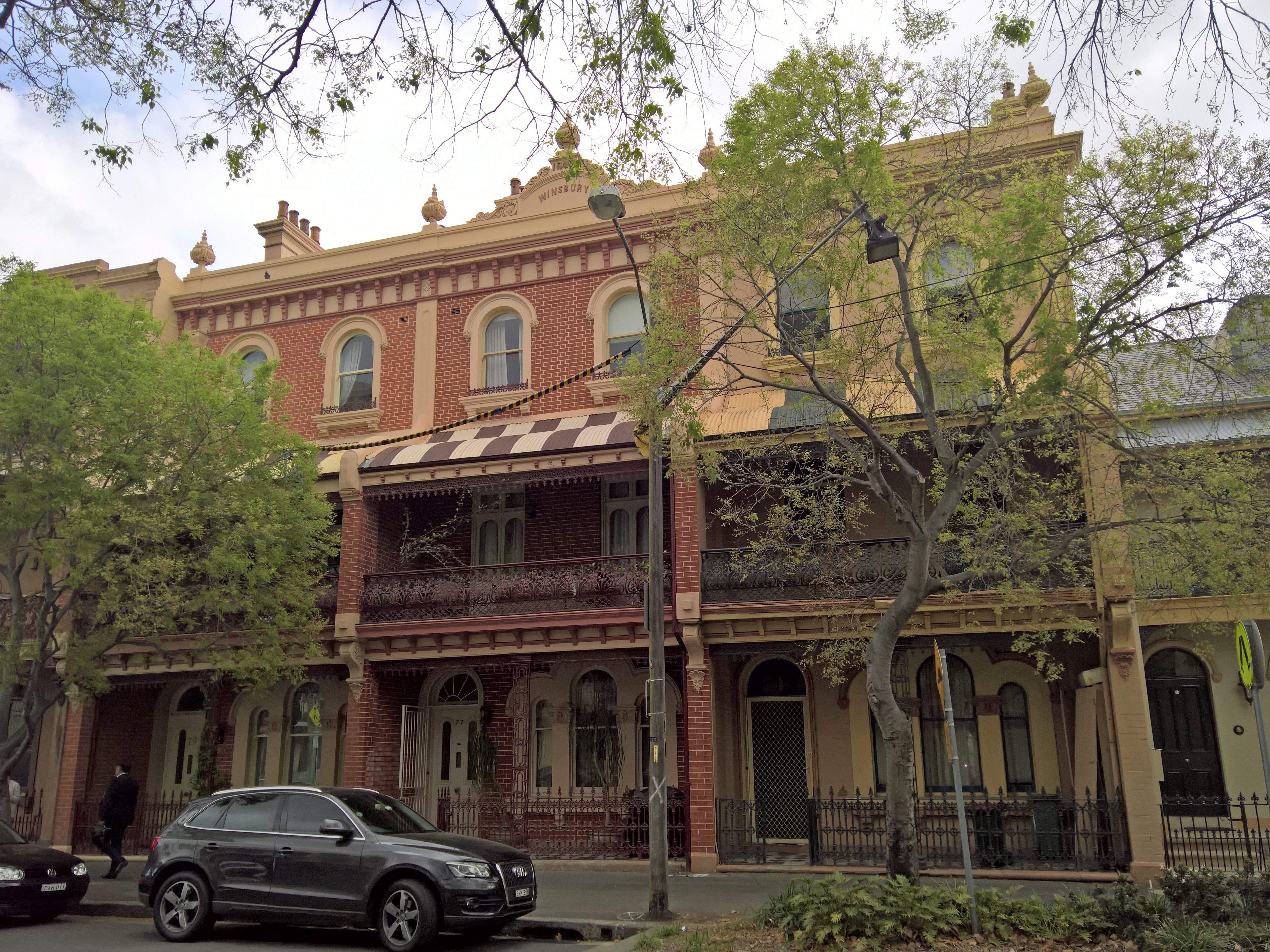 Winsbury Terrace is a row of three terrace houses at 75-79 Kent Street Millers Point, Sydney.